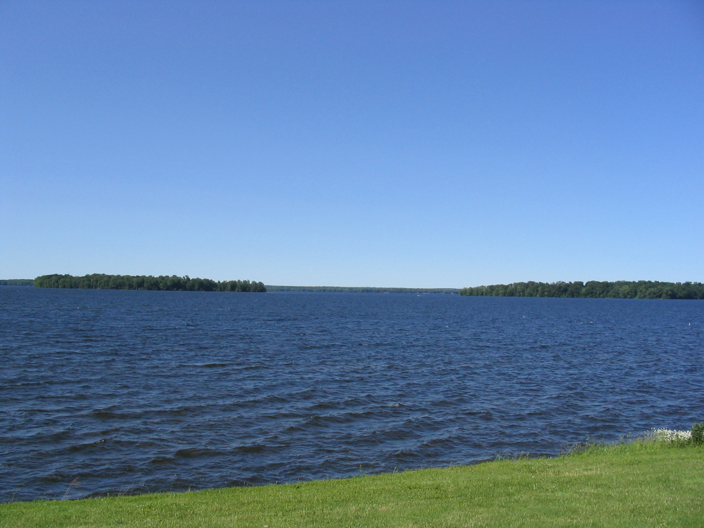 photo of Oneida Lake from the Yacht Club in Cicero, NY, taken by me on June 23, 2004